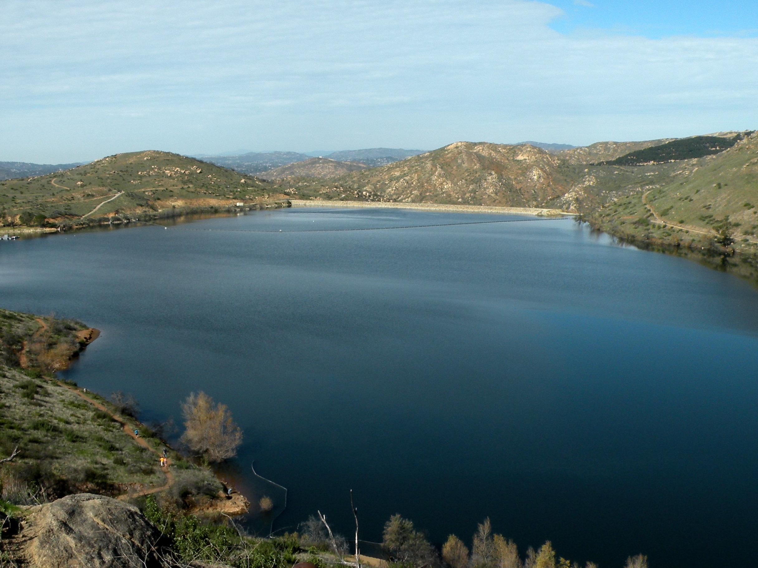 Lake Poway reservoir — in Poway, San Diego County, Southern California.